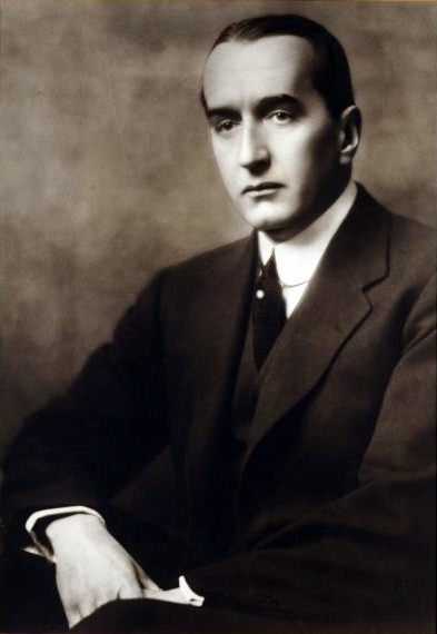 Portrait of Stanley Bruce as Prime Minister Photograph, Sepia toned, Original Size 48.4 x 39.0 cm, Retouched National Library of Australia, No. an23242080